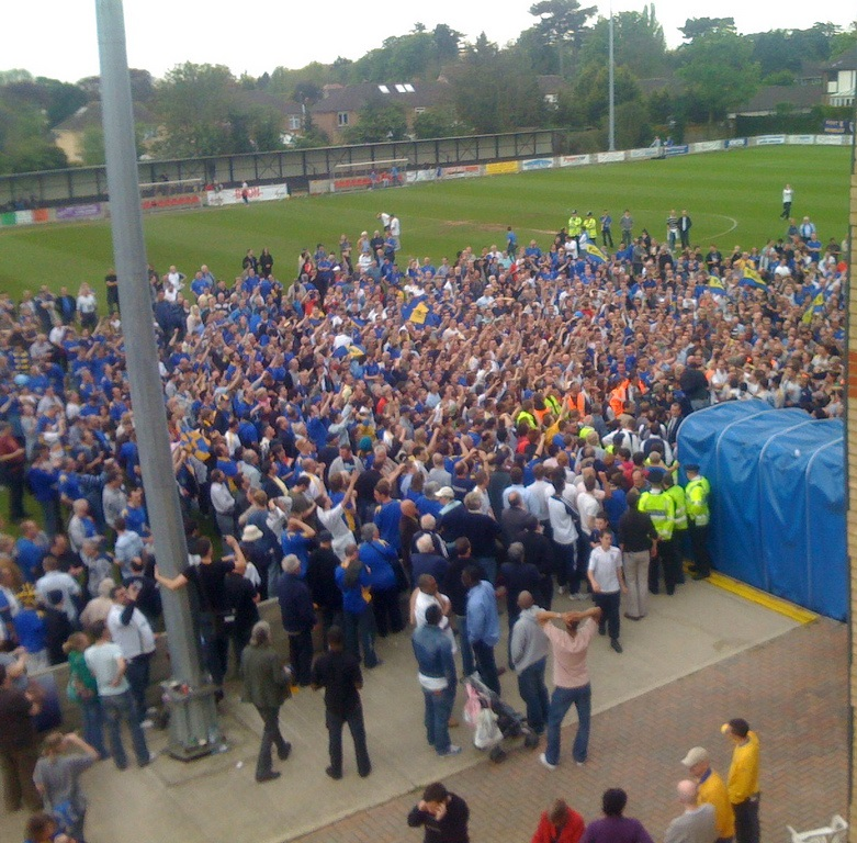 AFC Wimbledon fans, players, and all celebrate play-off win over Staines Town to earn promotion to Conference South.